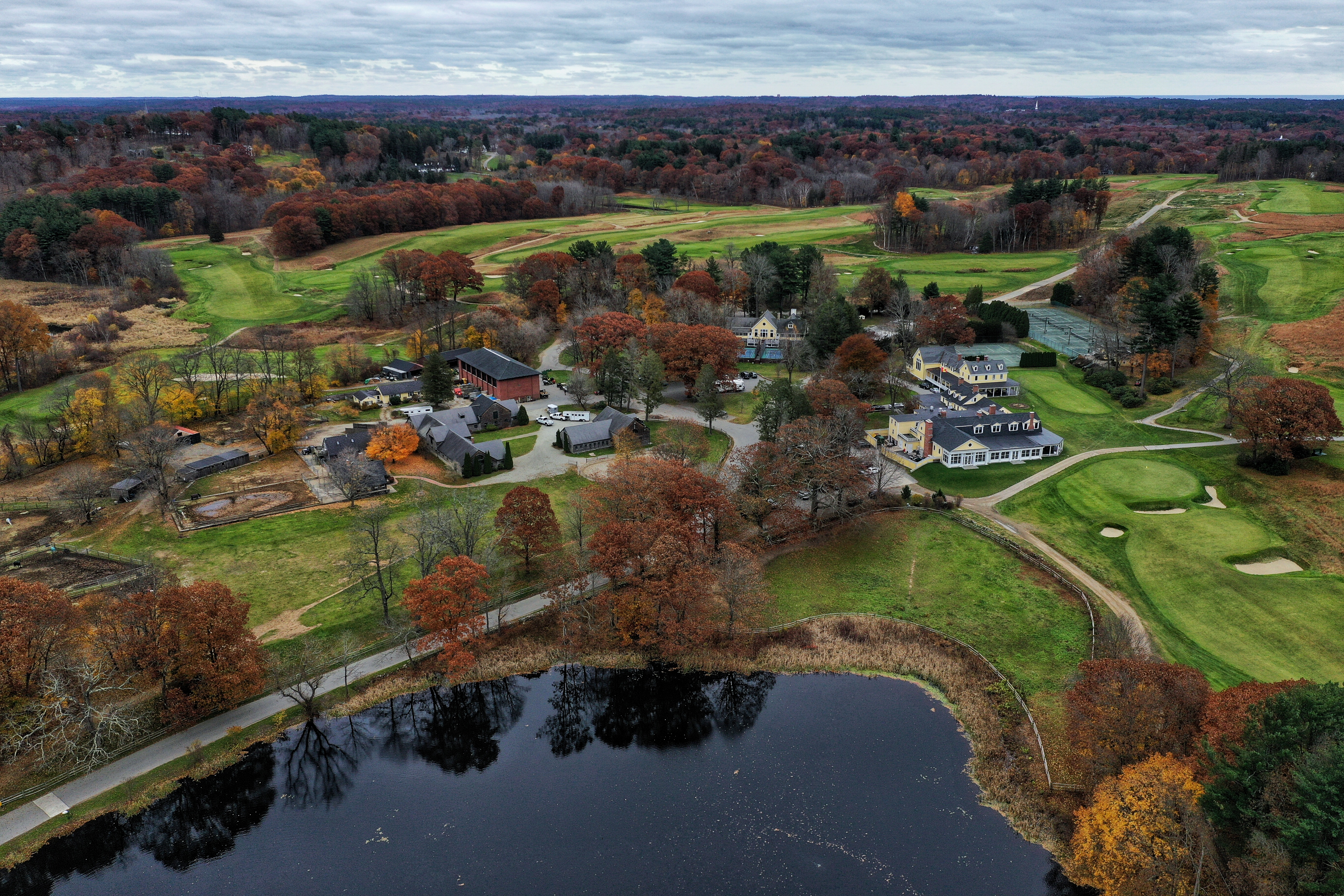 A private hunt, polo, and country club on the North Shore of Massachusetts